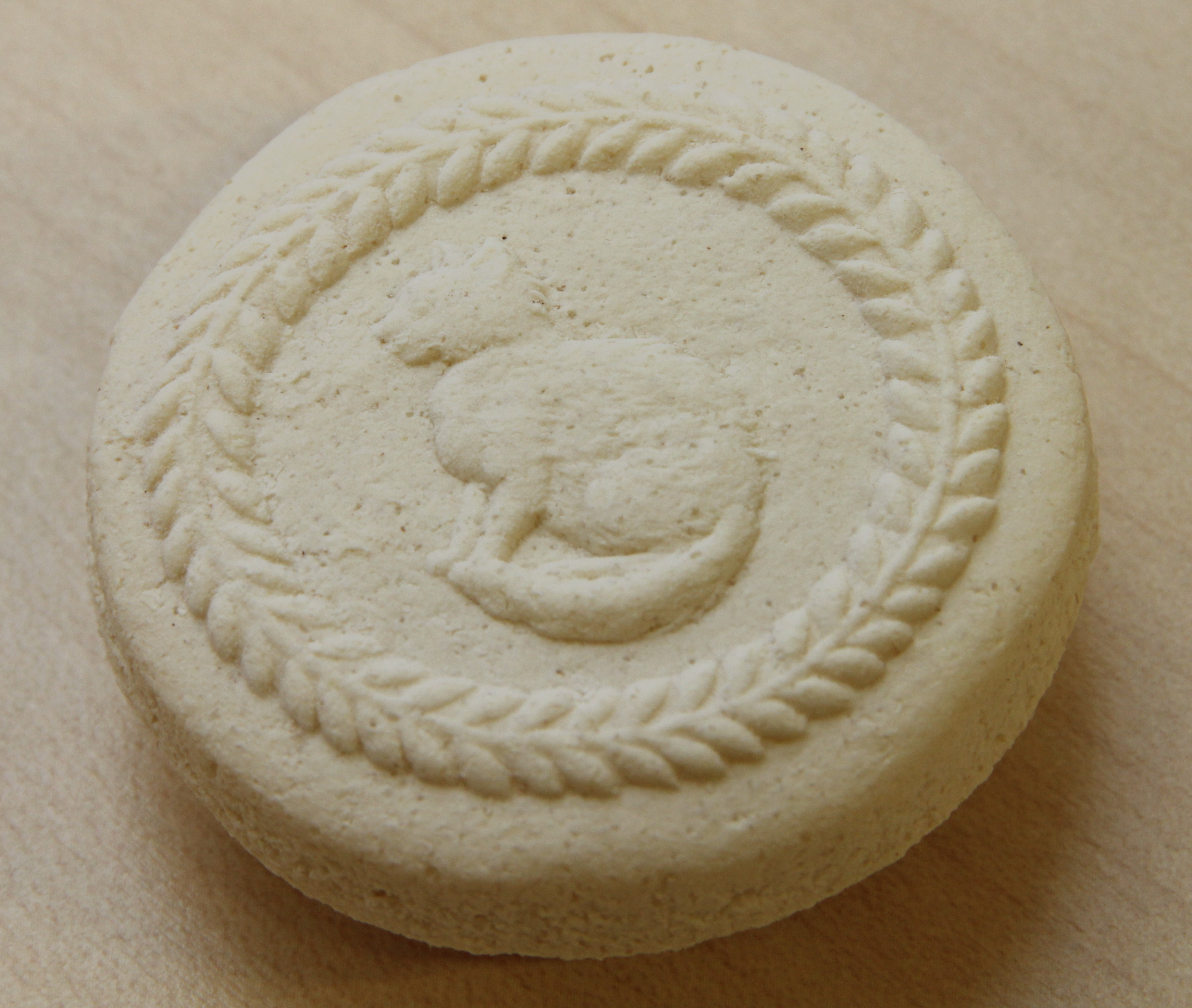 Swabian christmas cookie "Springerle" with cat motif.